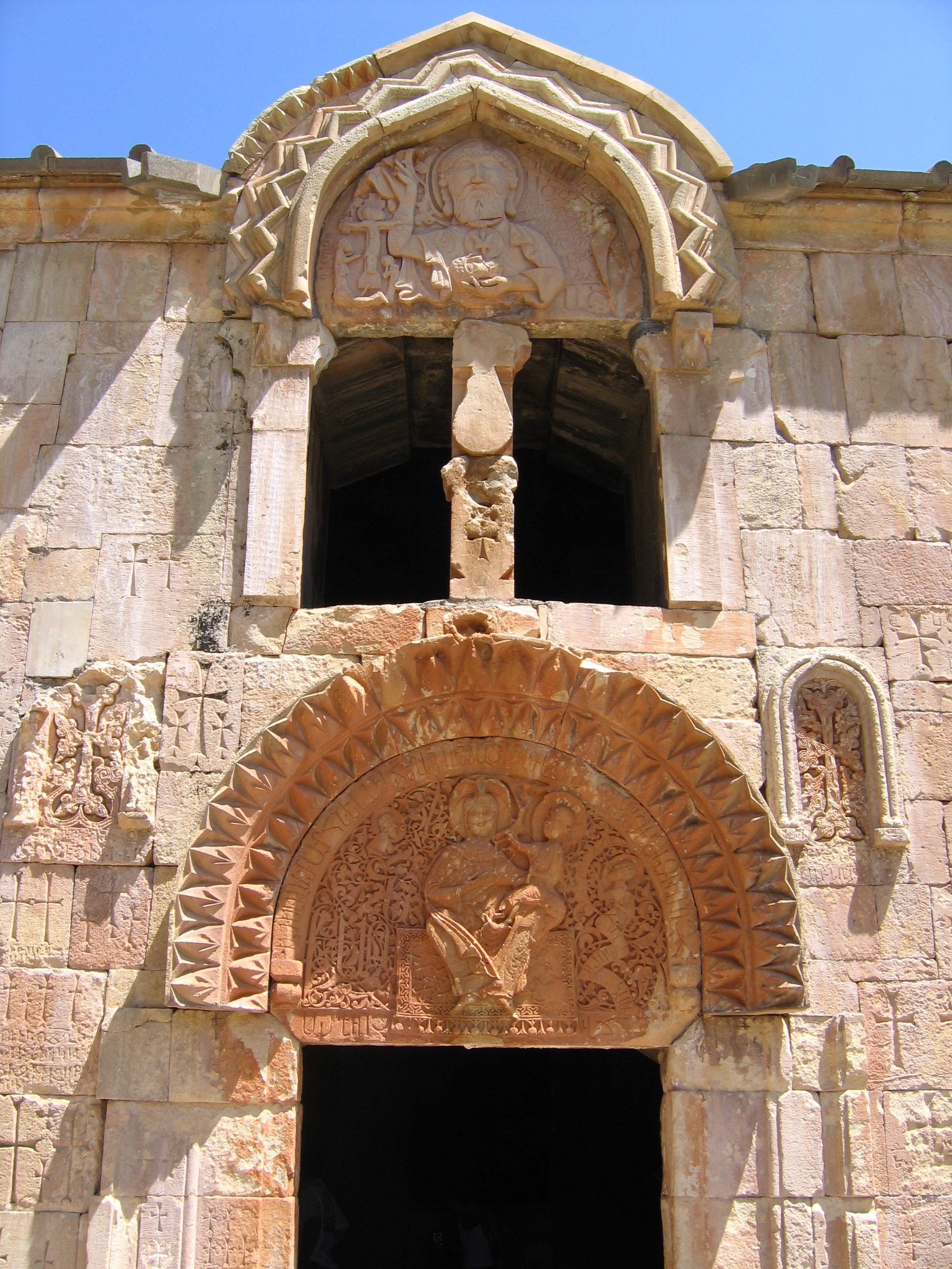 The facade of S. Karapet Church at Noravank Monastery